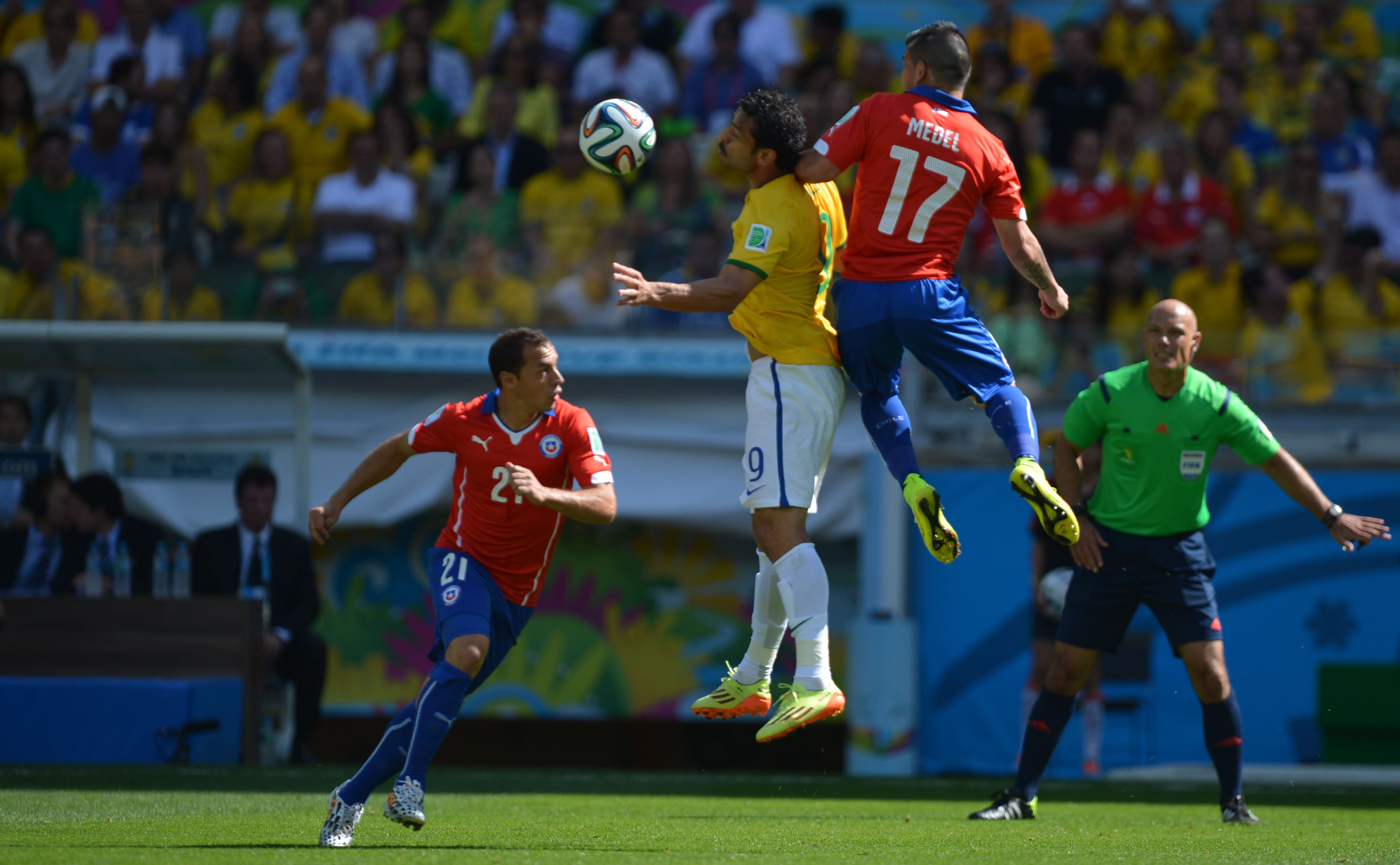 Brazil vs. Chile in Mineirão